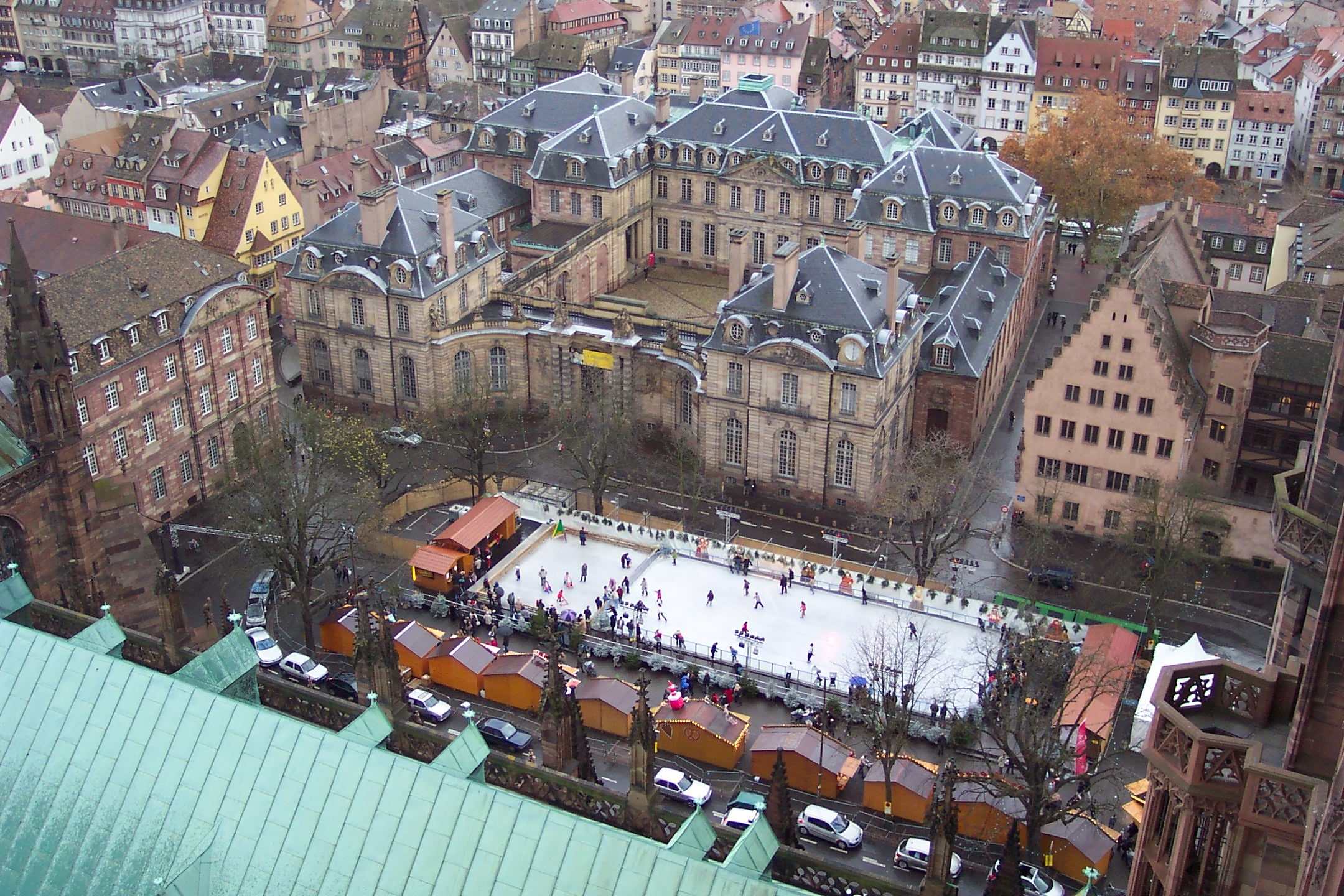 View from the Cathedrale Notre Dame, Strasbourg, France